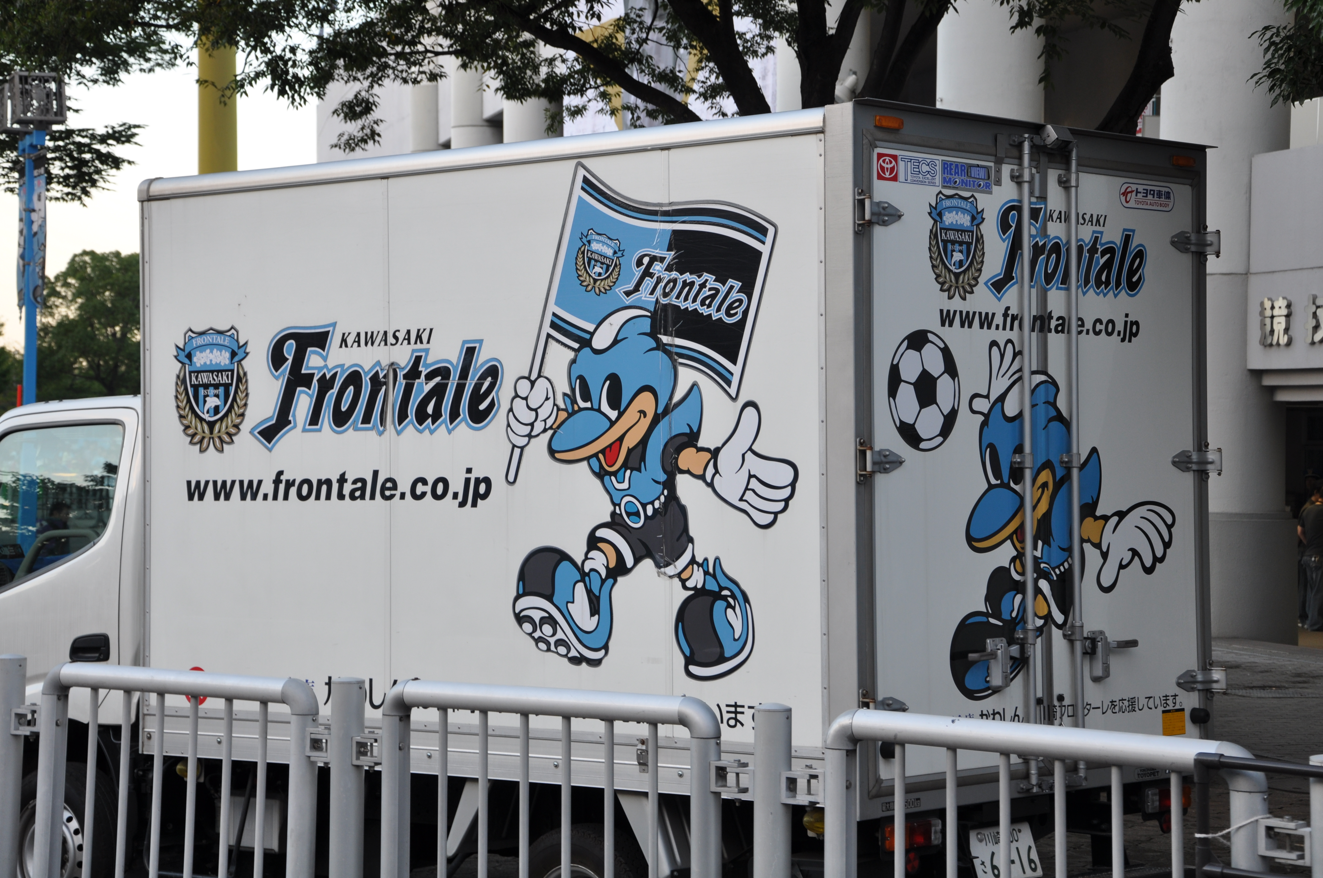 Truck (Kawasaki Frontale)